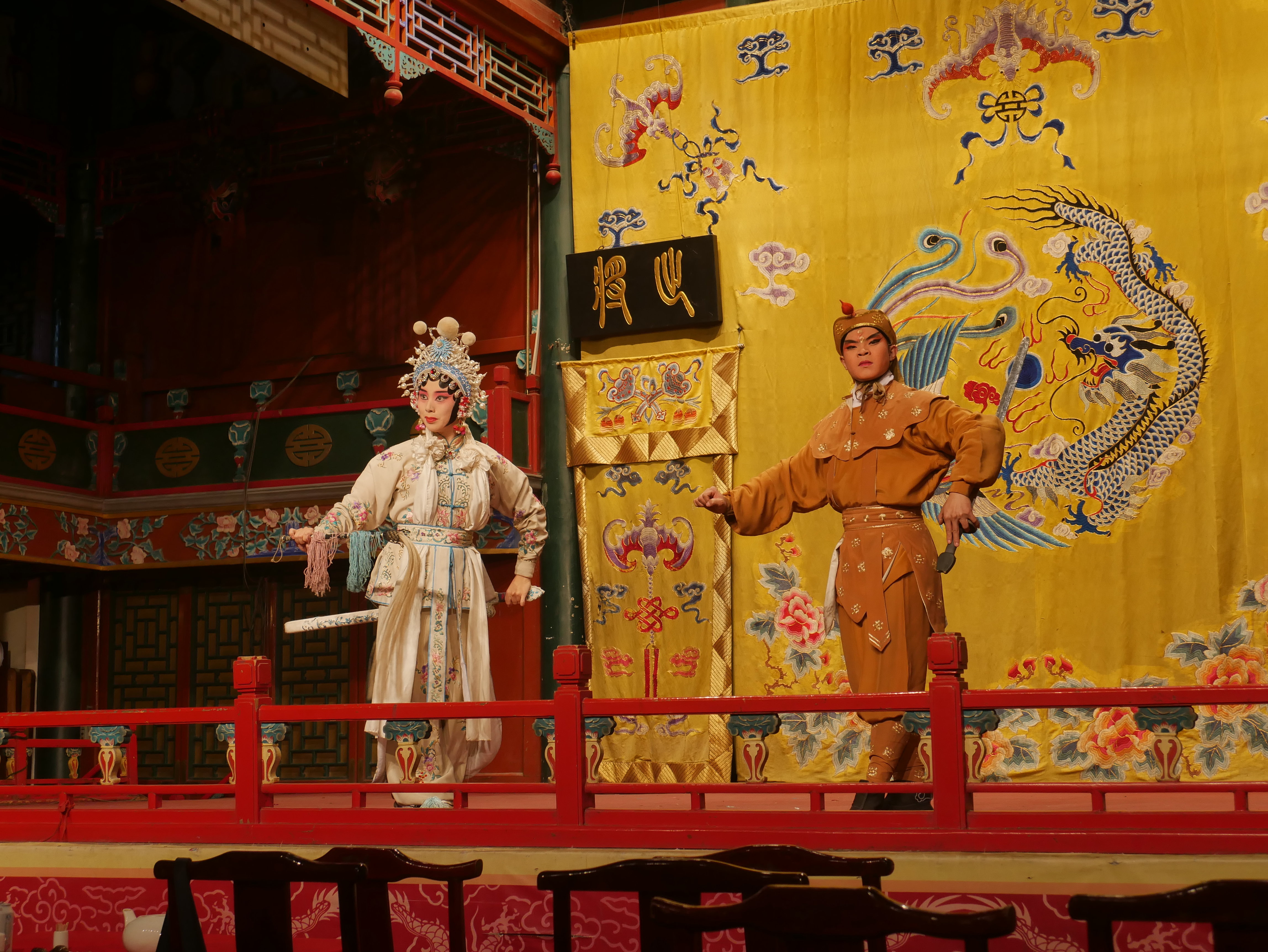 Beijing Opera: "Legend of the White Snake"; taking fotos/films is expressly permitted